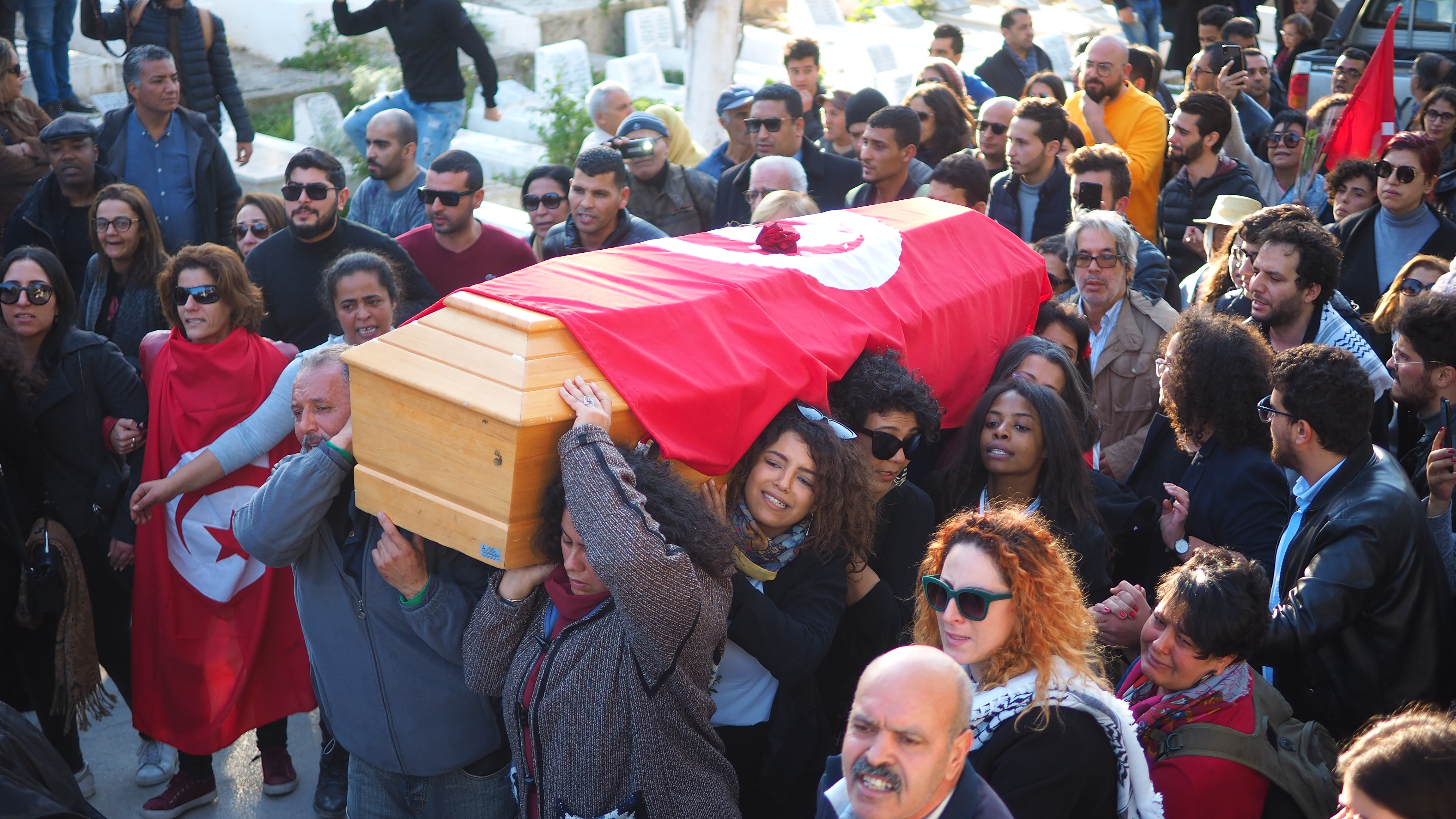 Funeral of Lina Ben Mhenni